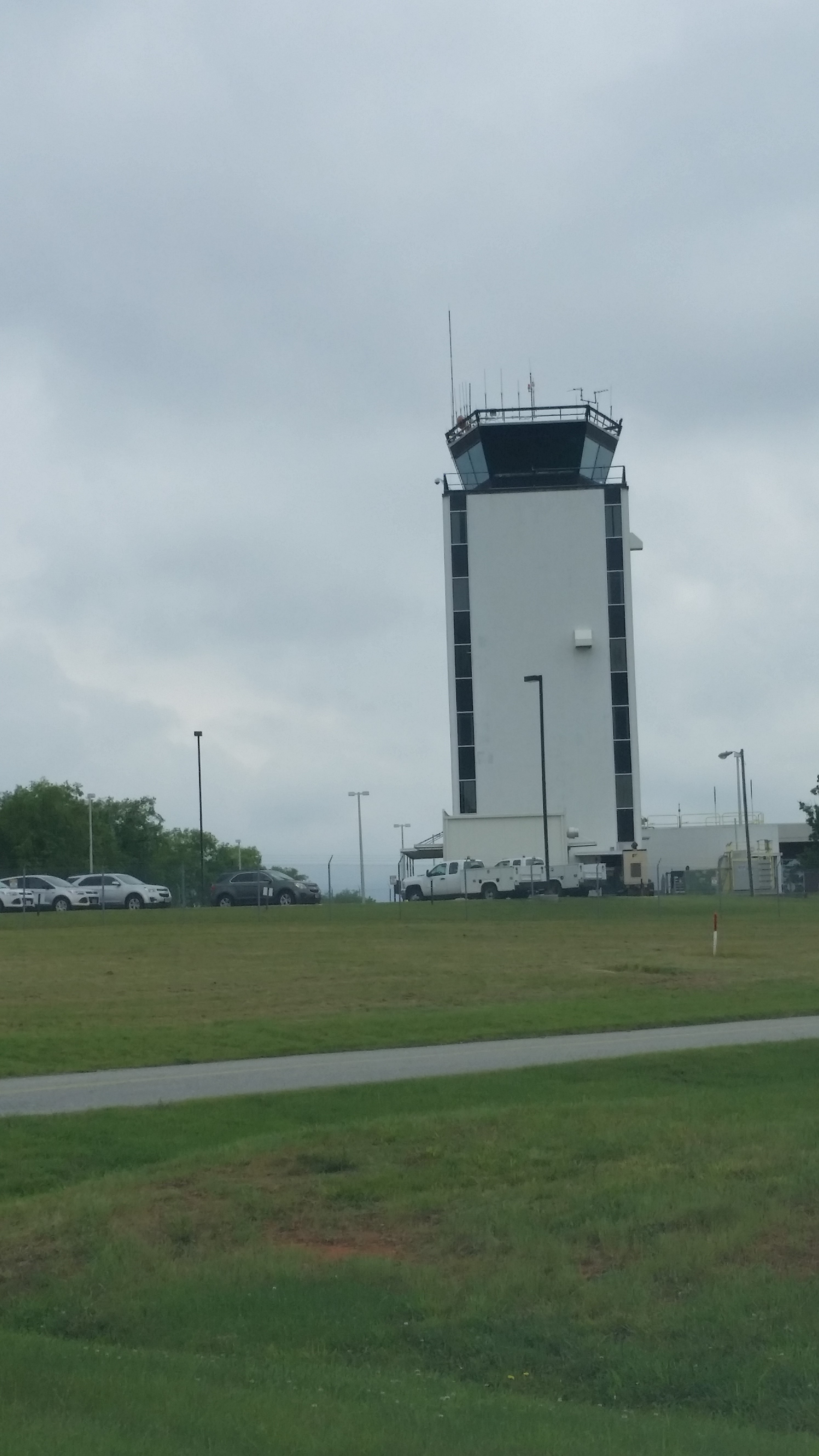 The Air Traffic Control Tower/TRACON at Piedmont-Triad International Airport